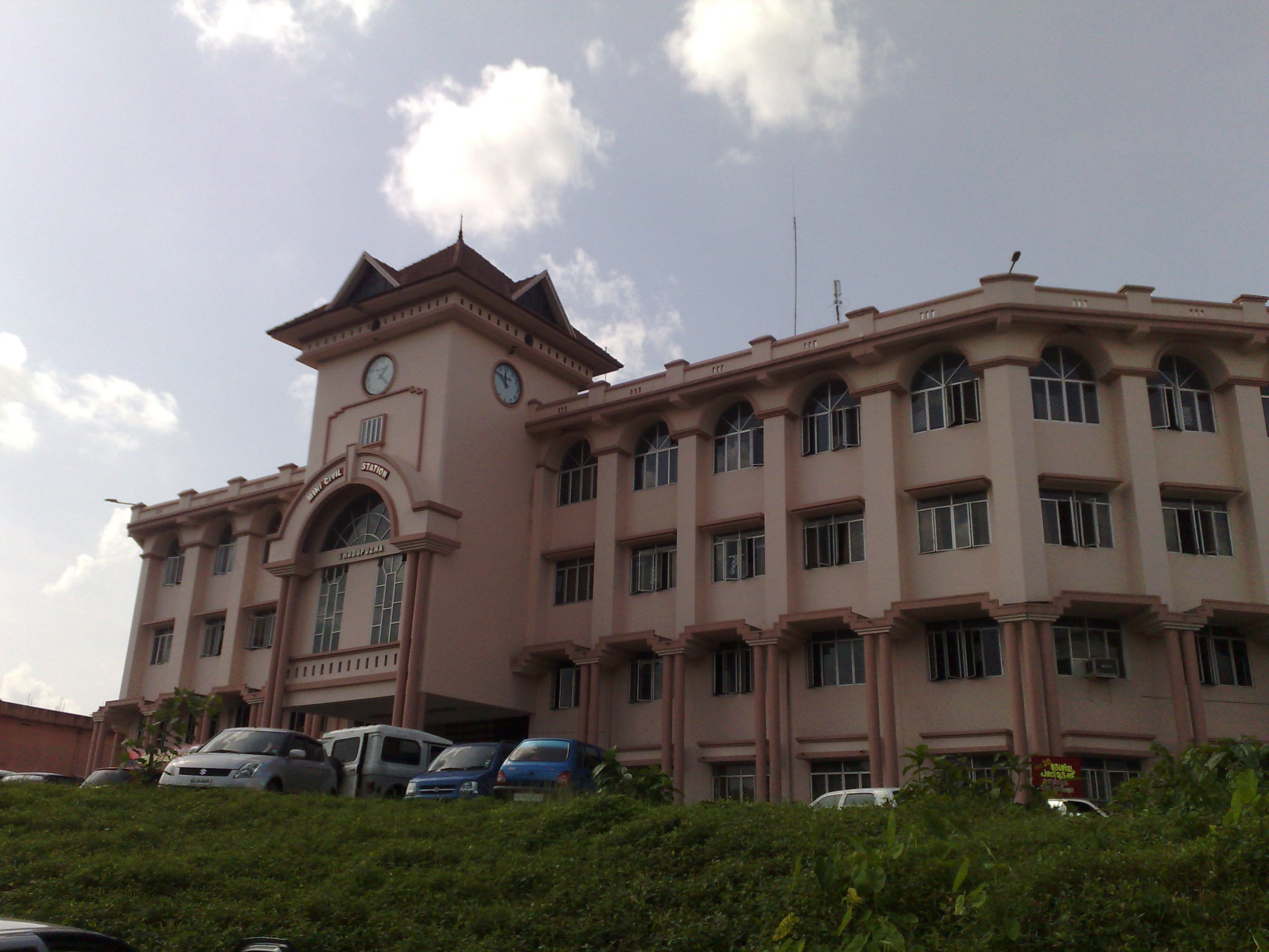 Thodupuzha Mini Civil Station my own photo